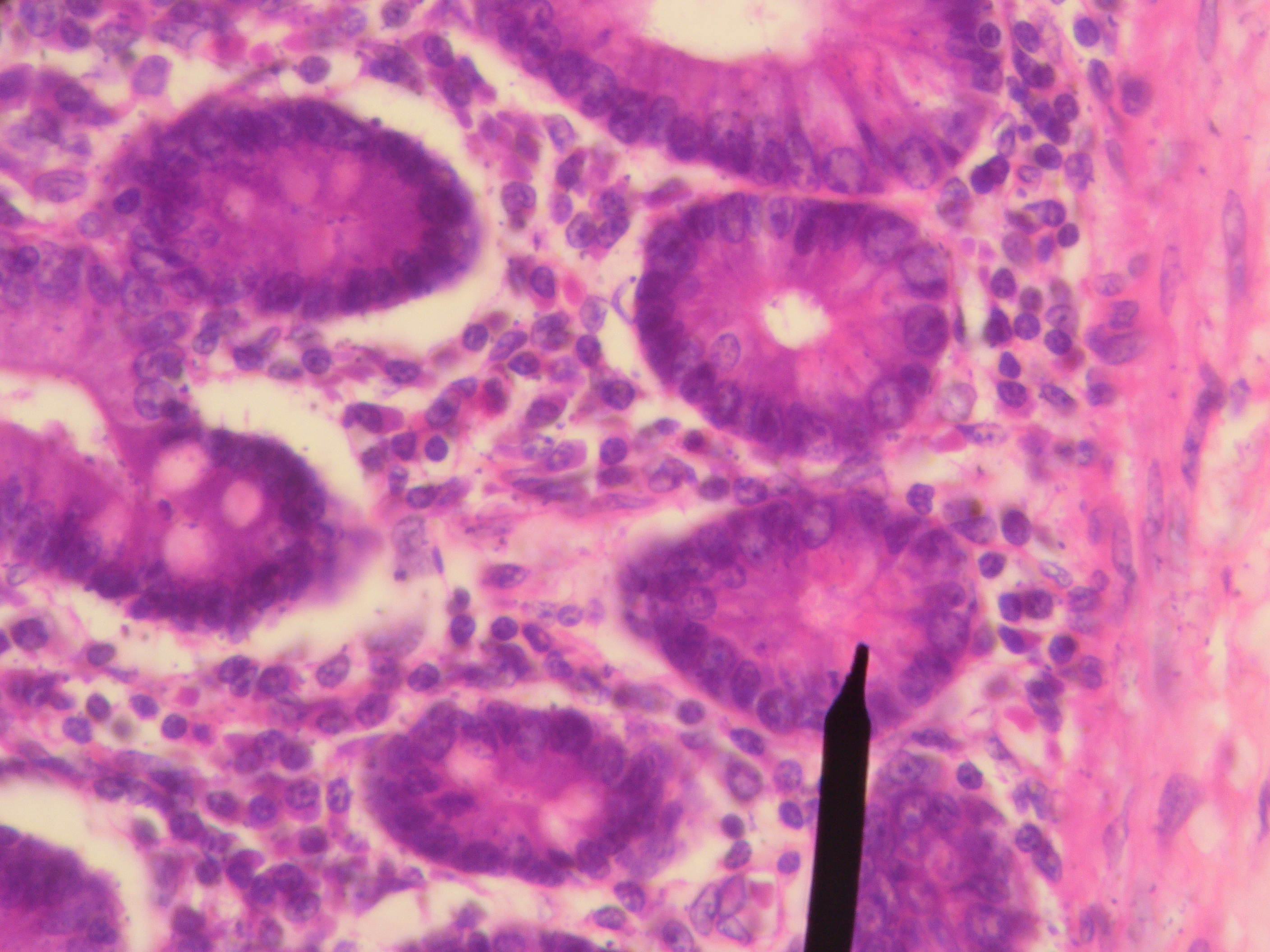 Human Paneth cells